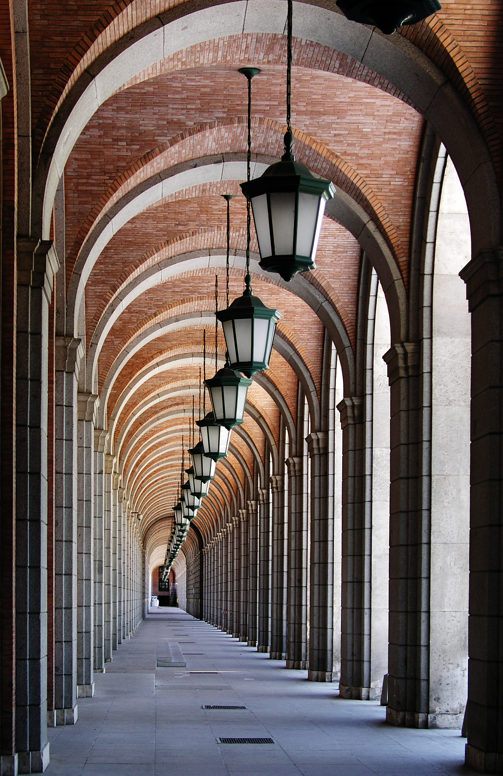 Nuevos ministerios, Madrid, Spain. Arcade.